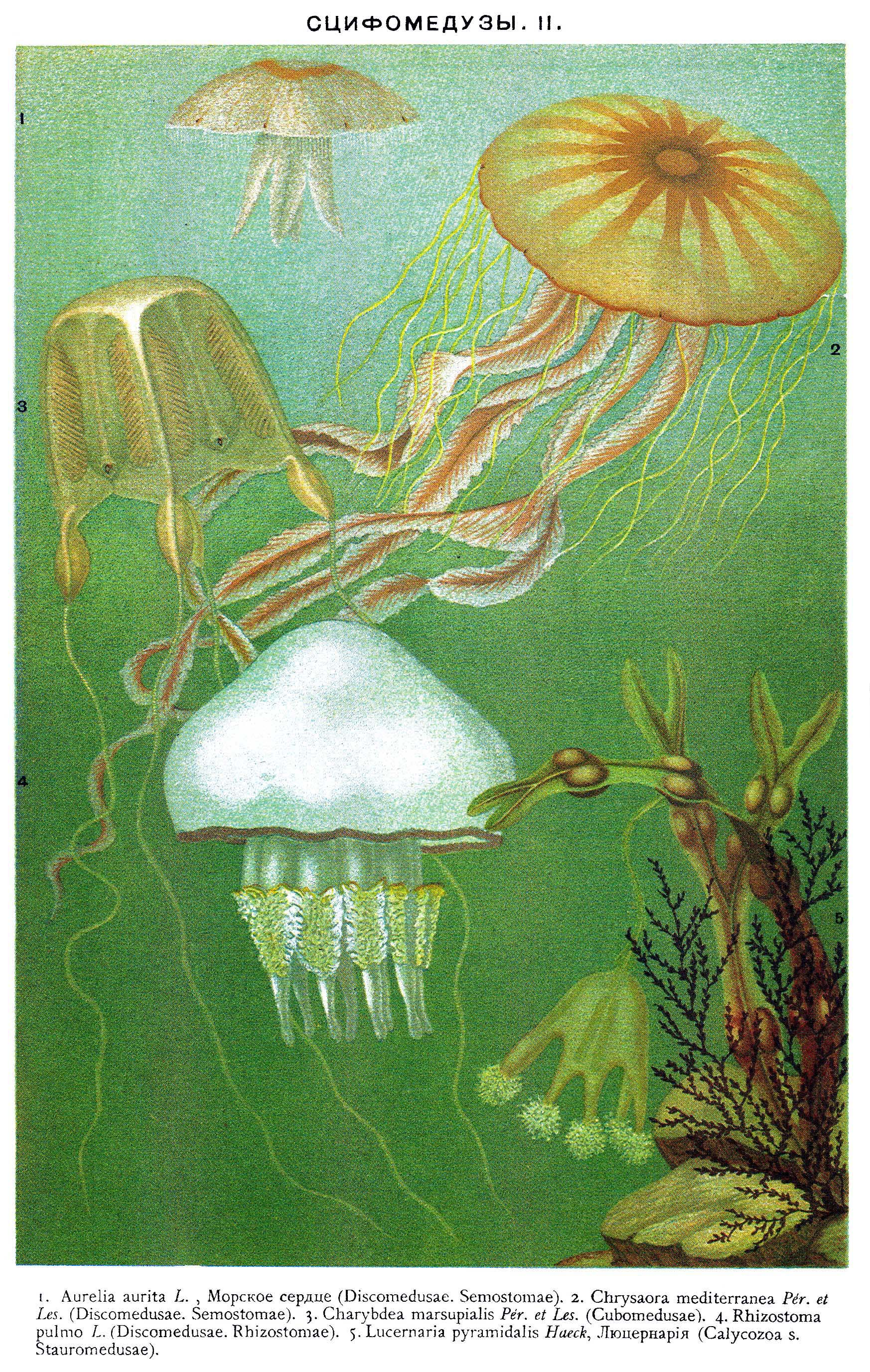 Illustration from Brockhaus and Efron Encyclopedic Dictionary (1890—1907)